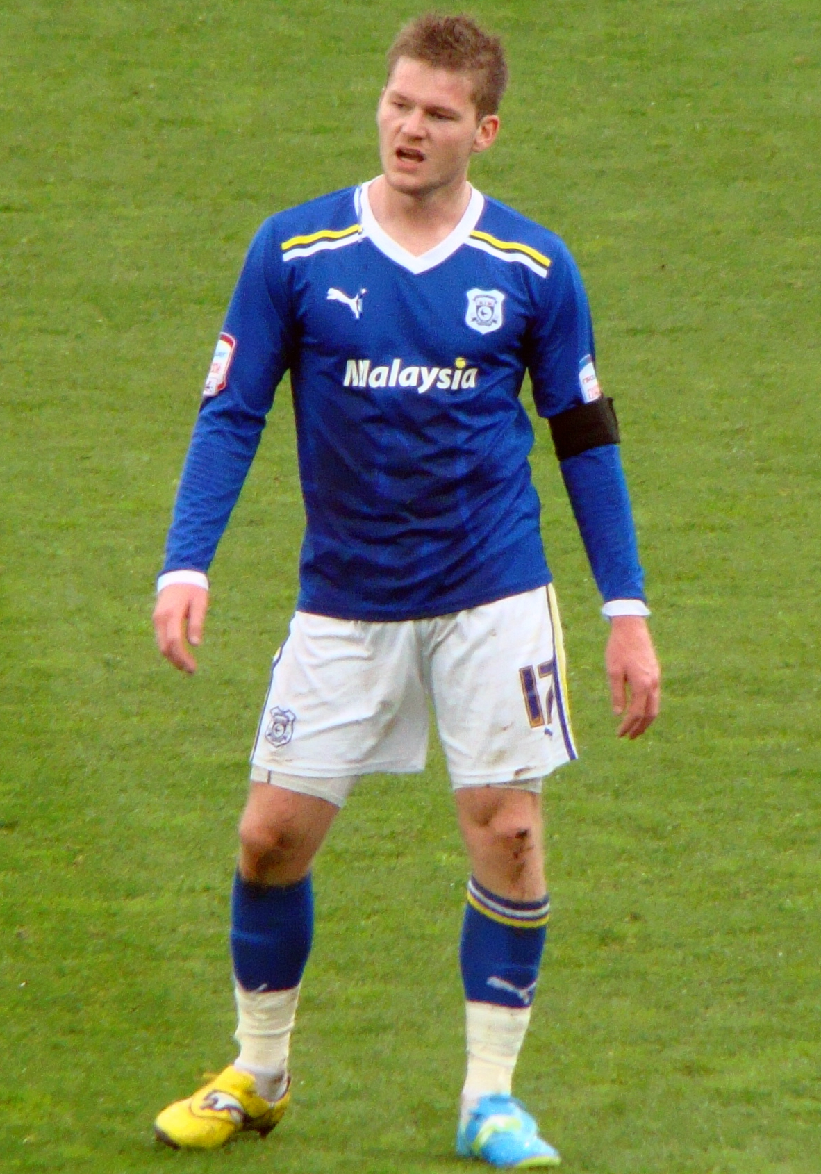 Aron Gunnarsson at Cardiff v Leeds, Championship, Cardiff City Stadium, Cardiff, Wales, 2012-04-21.